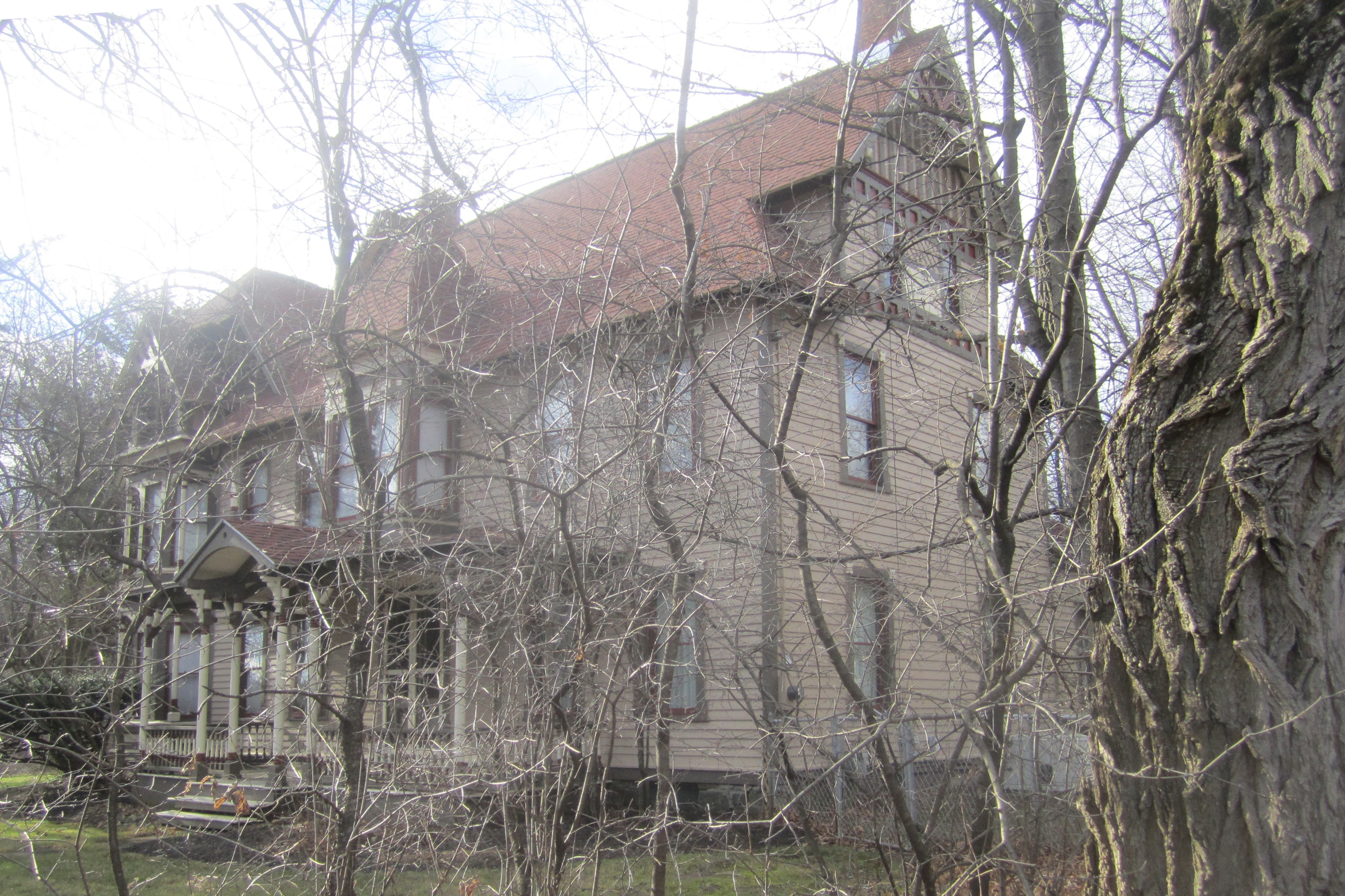 Cyrus Rexford House, Clifton Park, NY. NRHP #10001135